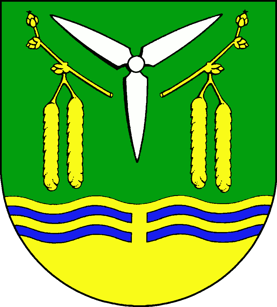 Coat of arms of the municipality Puls in Schleswig-Holstein, Germany.